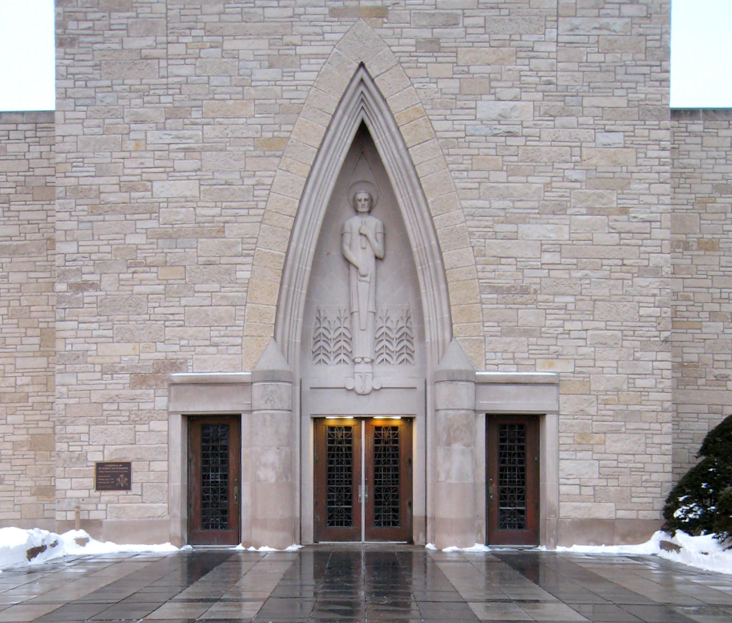 Detail of facade of St. Joseph the Worker Cathedral in La Crosse, Wisconsin, USA